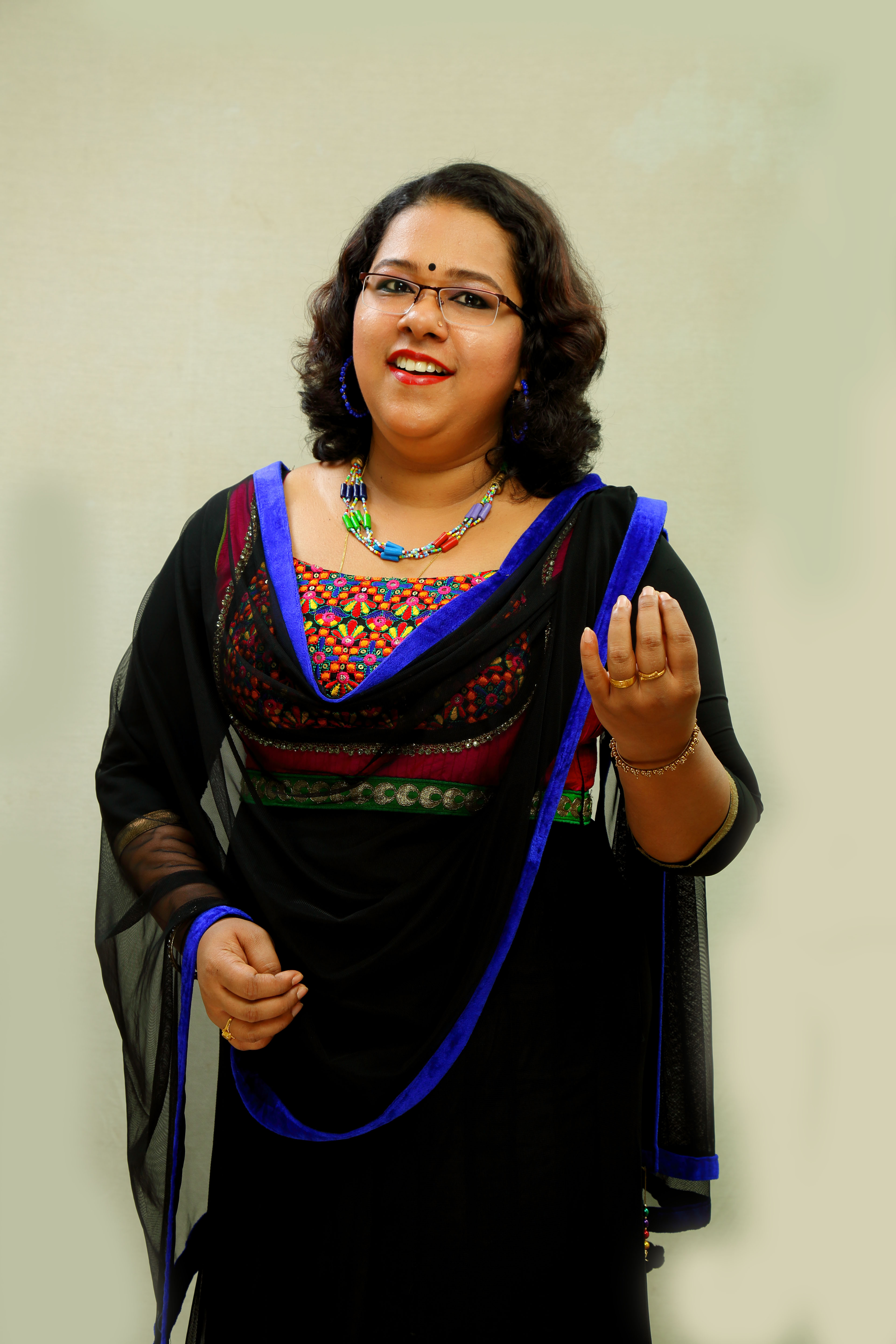 Rajalakshmy